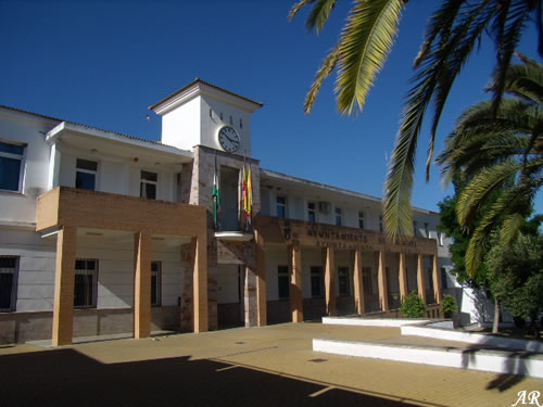 Arriate town hall